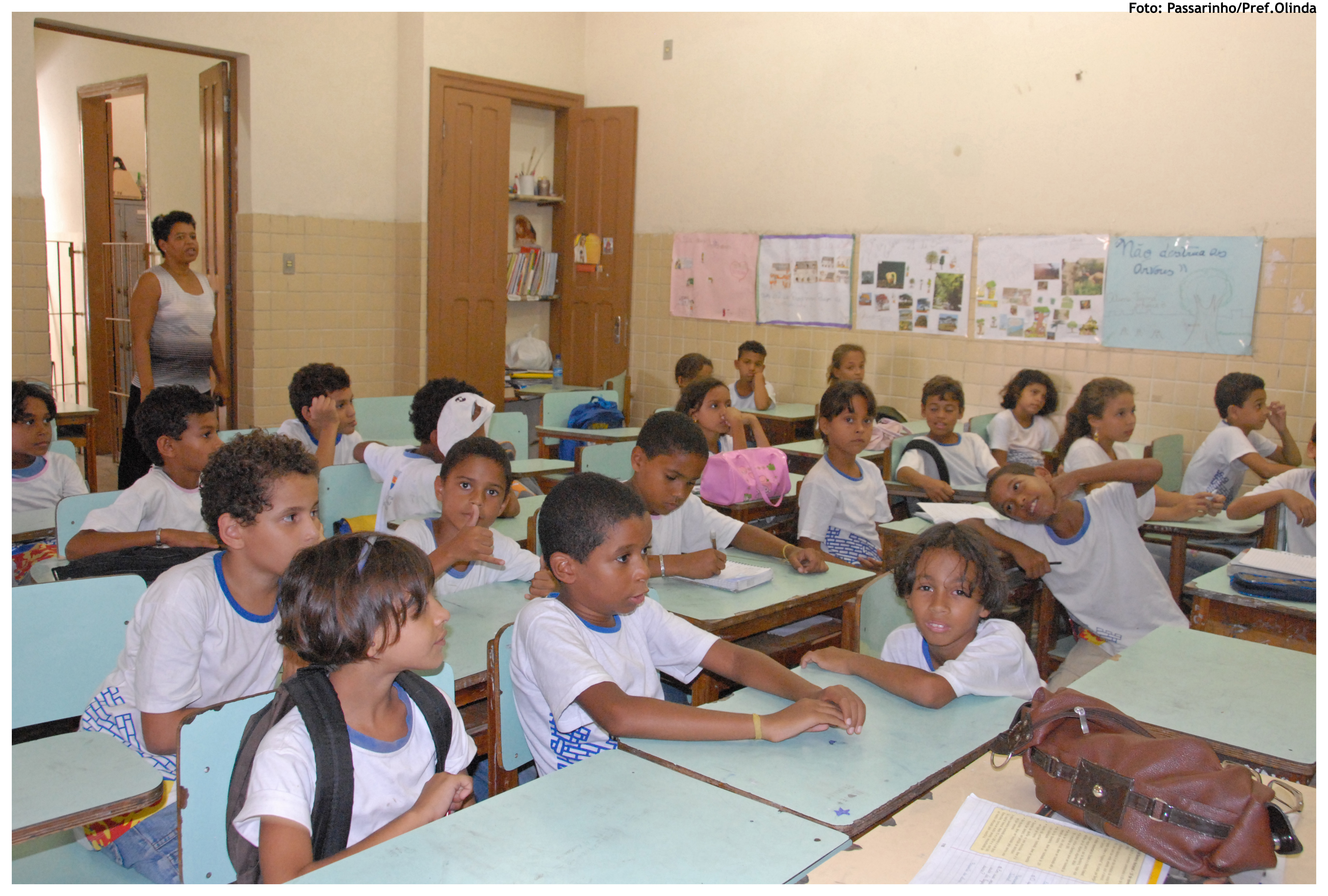 A school in the Northeast region of Brazil (Escola Duarte Coelho) Foto: Passarinho/Pref.Olinda